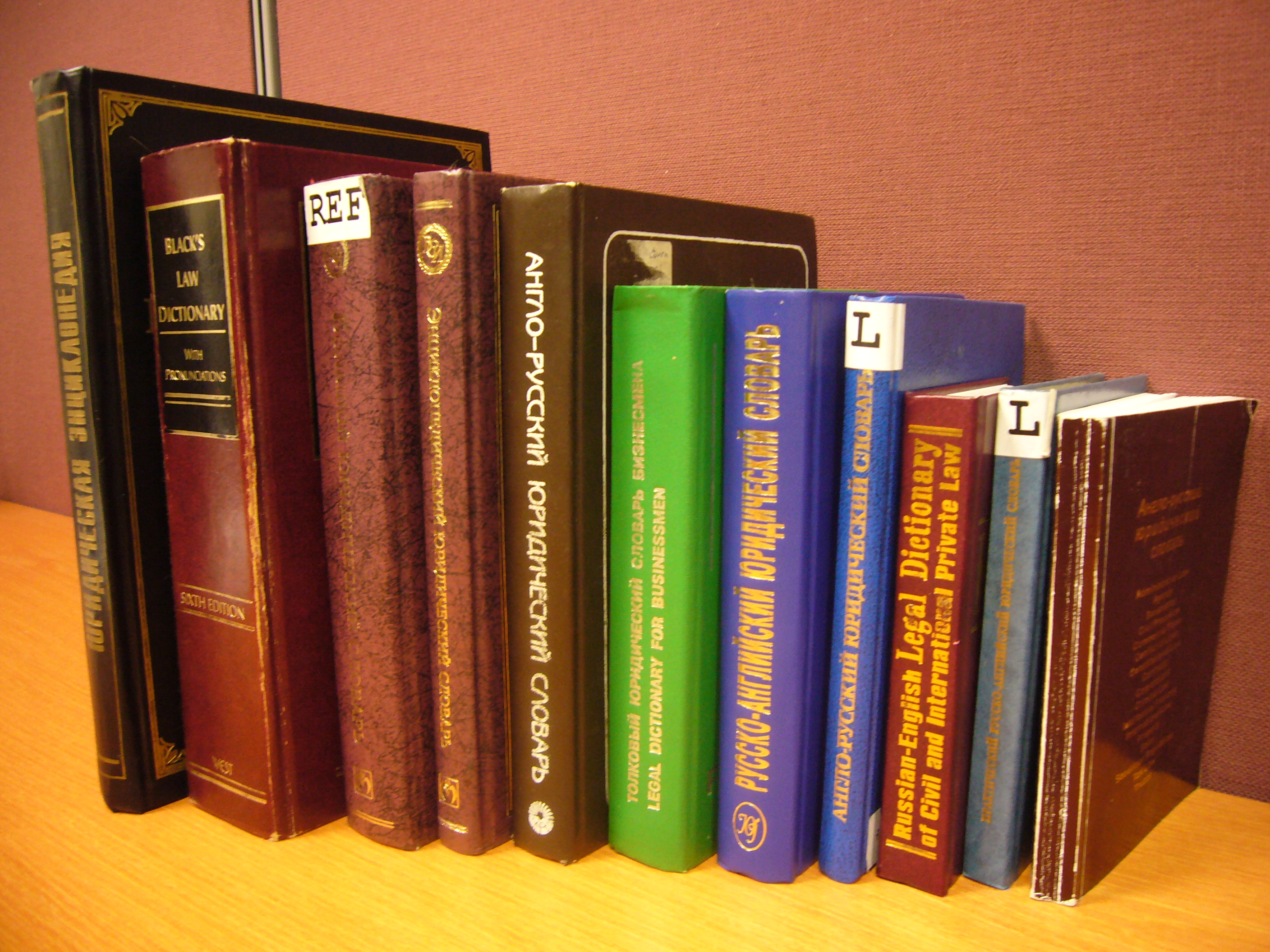 A stack of legal dictionaries on a desk.